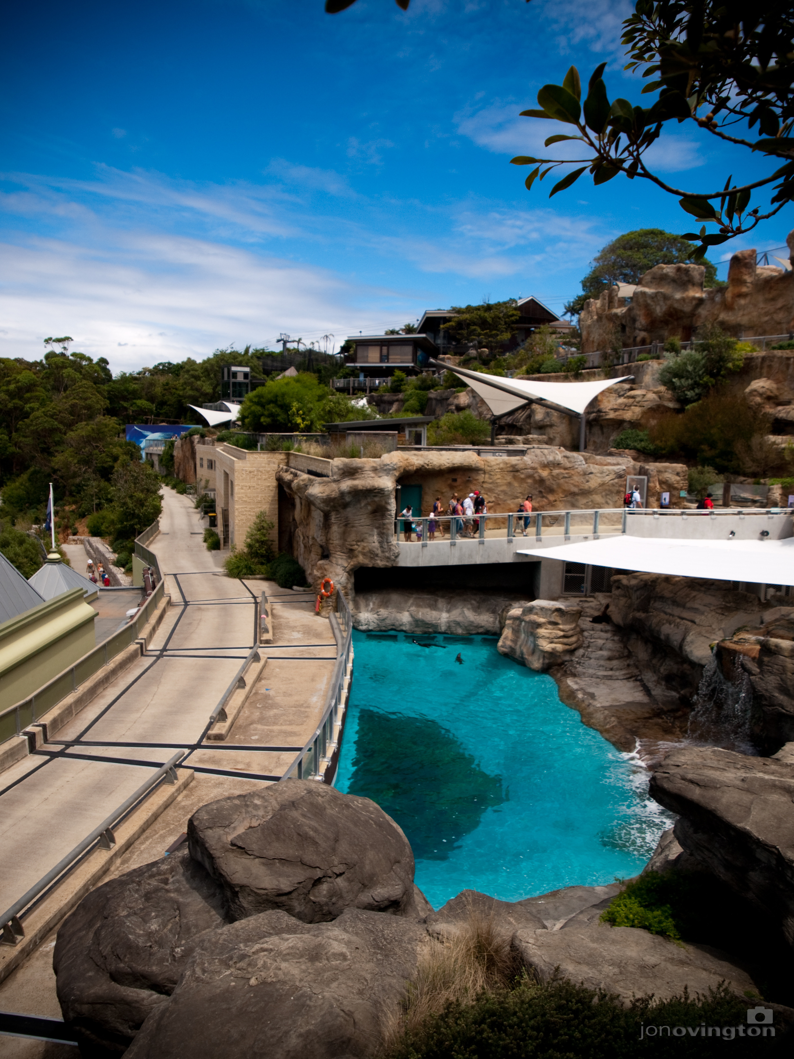 Taronga Zoo, Sydney, Australia.